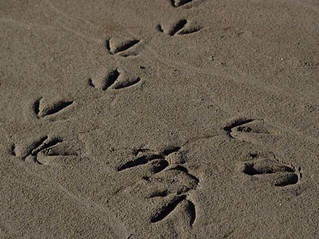 Goose tracks on the beach in Albany, Ore., 2002.